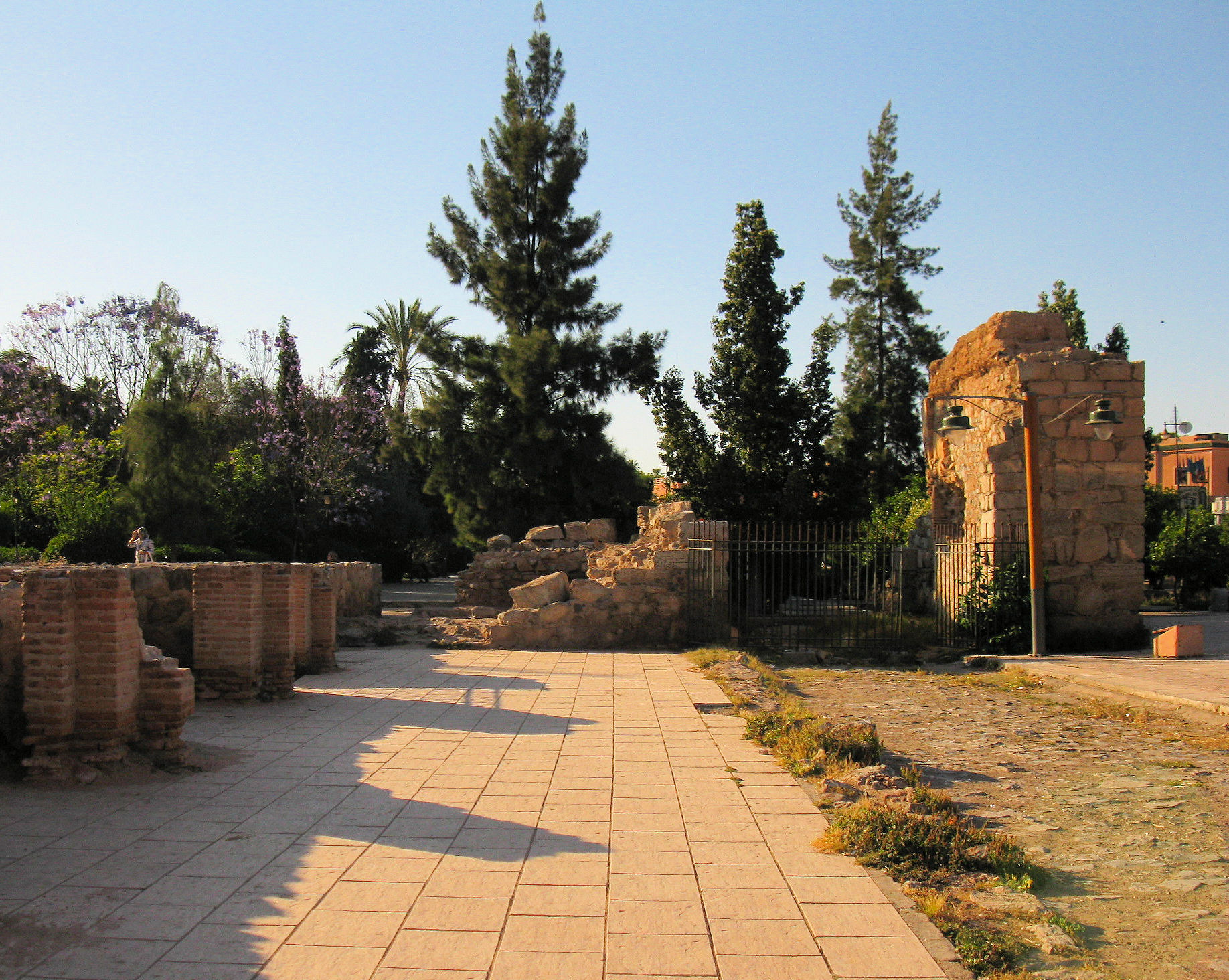 Remains of Ksar el Hajjar and Bab 'Ali near the Koutoubia Mosque. The stone pillar on the right was part of Bab 'Ali, the gate of the former Almoravid palace and kasbah.